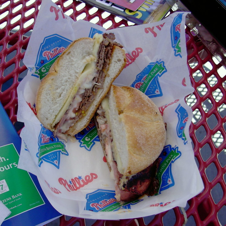 Schmitter (Sandwich)